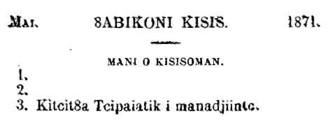 May from an Algonquin calendar for 1870-1871. Translation Translation of the Algonquin language text is: ȢÀBIKONI KÌSIS: MAY (Flowering Moon) MANI O KÌSISOMAN: MARY'S MONTH 3. Kitcitȣà Tcìpaiàtik i manàdjiintc: 3. Feast of the Cross (Honoring of the Holy Cross) If in the Ojibwe language, the same instead would have been: ȢÀBIKȢANI KÌZIS: MAY (Flowering Moon) MANI O KÌZISOMAN: MARY'S MONTH 3. Kitcitȣà Tcìpaiàtik e manàdjiint: 3. Feast of the Cross (Honoring of the Holy Cross) Written today in the Fiero Romanization as: WAABIGWANI-GIIZIS: MAY (Flowering Moon) MANI OGIIZISOMAN: MARY'S MONTH 3. Gichitwaa-jiibayaatig e-manaaji'ind: 3. Feast of the Cross (Honoring of the Holy Cross)